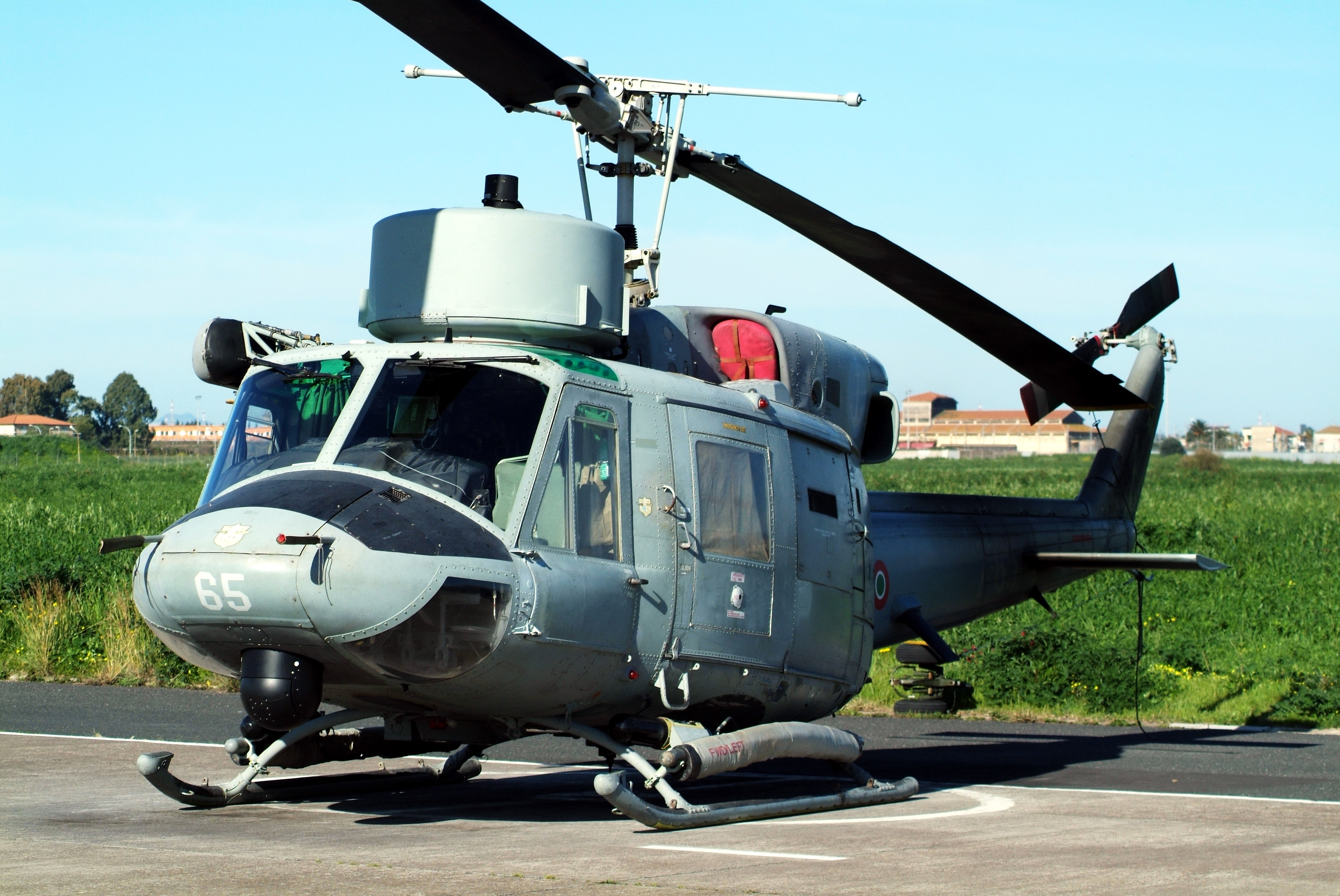 AB-212ASW MM81182/7-65 of Catania Naval Air Station